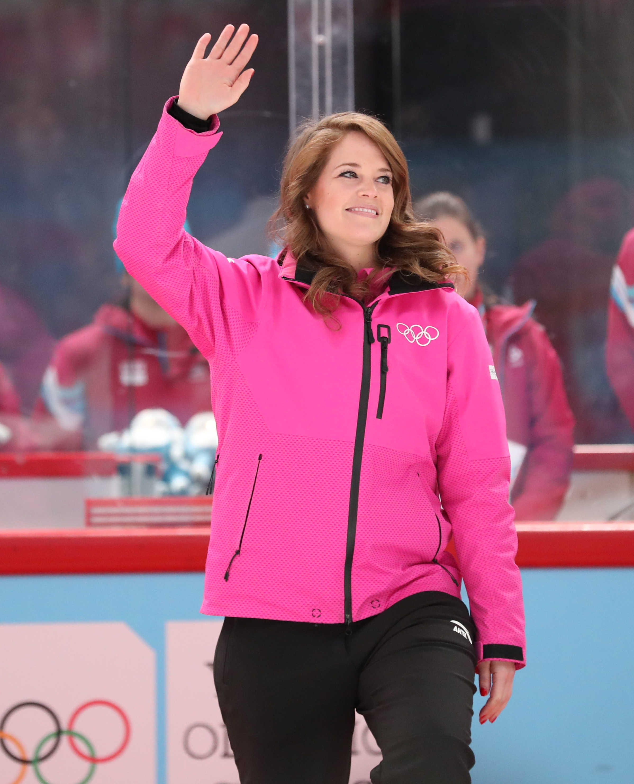 Victory Ceremony (Mascot and Medal Ceremony) at the Women's Ice Hockey Tournament at the 2020 Winter Youth Olympics in Lausanne: Japan (Gold medal), Sweden (Silver medal) and Slovakia (Bronze medal)